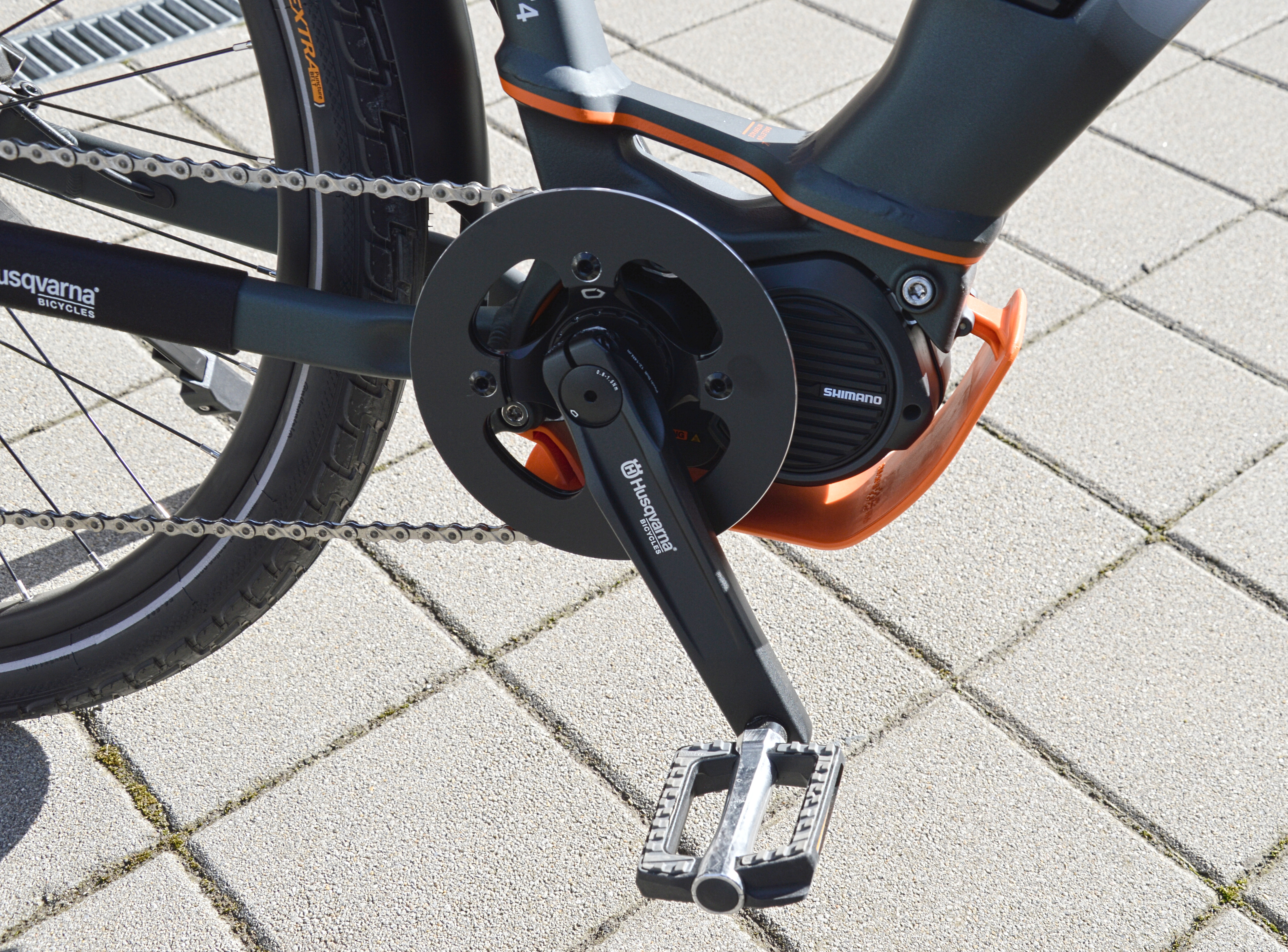 SHIMANO STePS DU-E6100